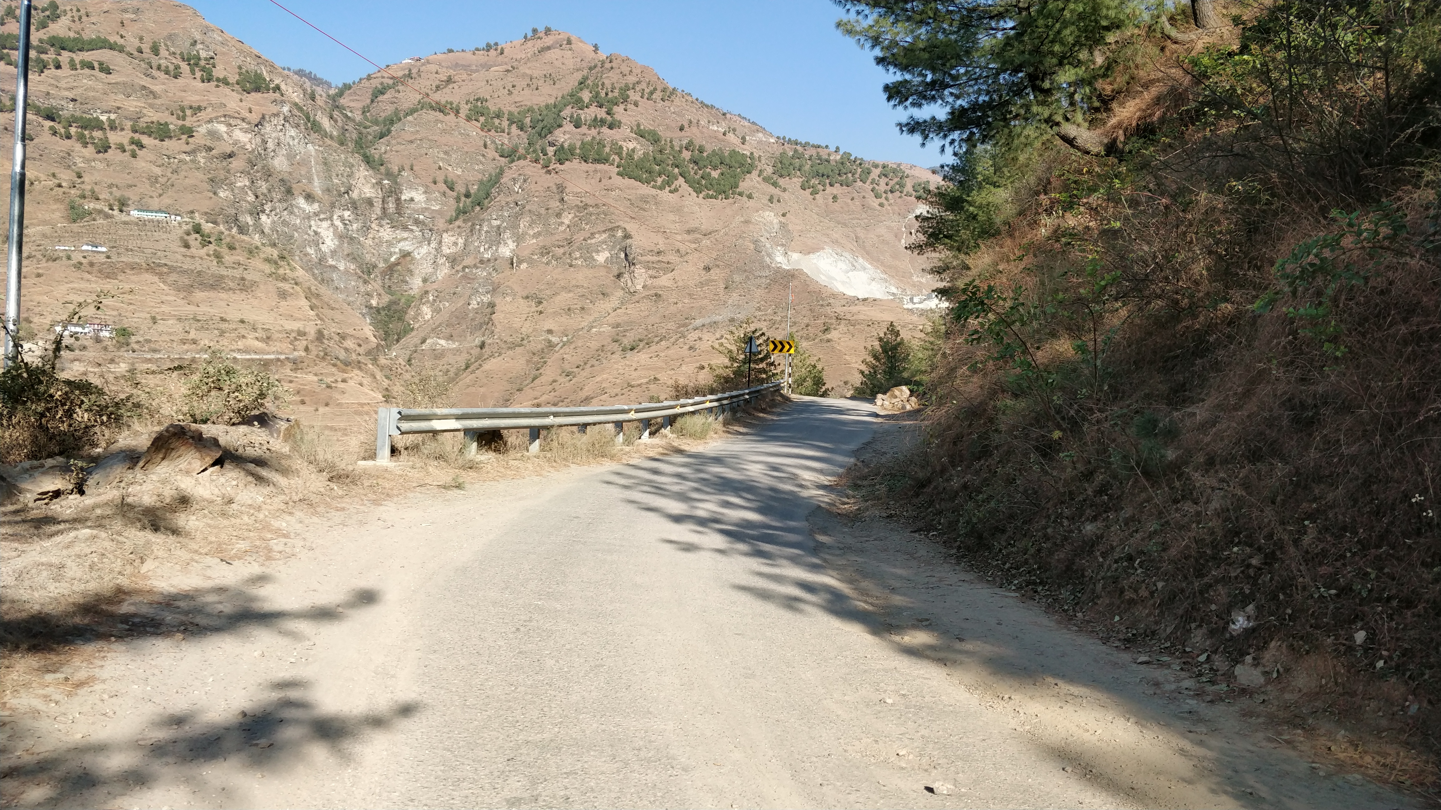 Sainj Chaupal road near Dhanot.